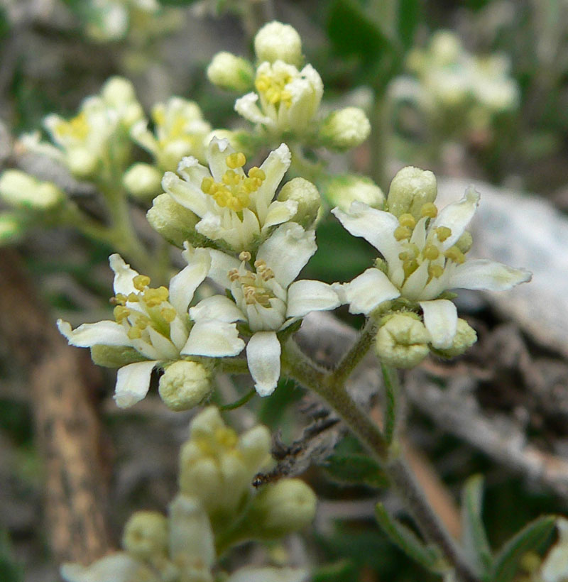 Fendlerella utahensis in Carpenter Canyon near the road end/turnaround, Spring Mountains, southern Nevada (elev. about 2100 m)